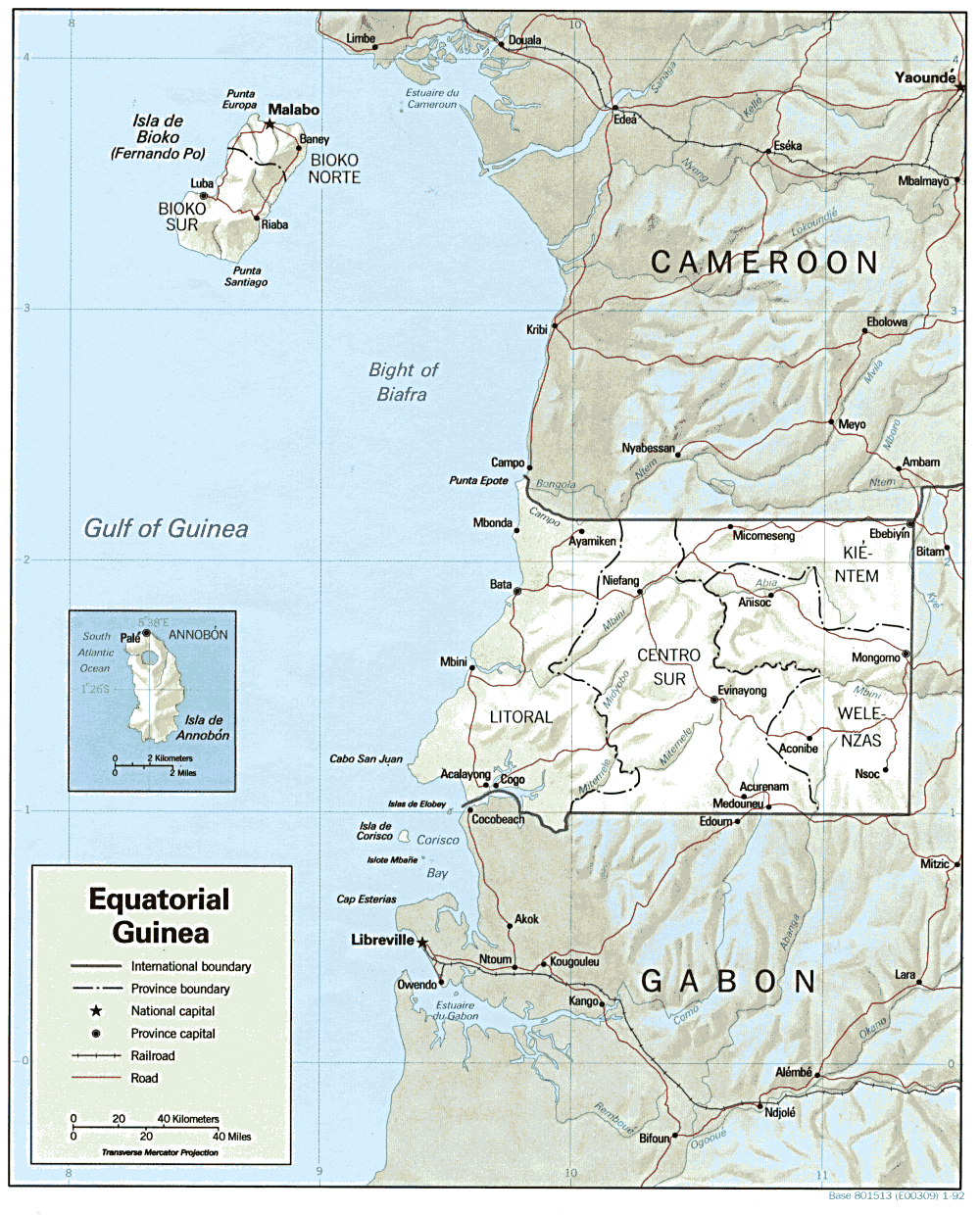 Shaded relief map of Equatorial Guinea.